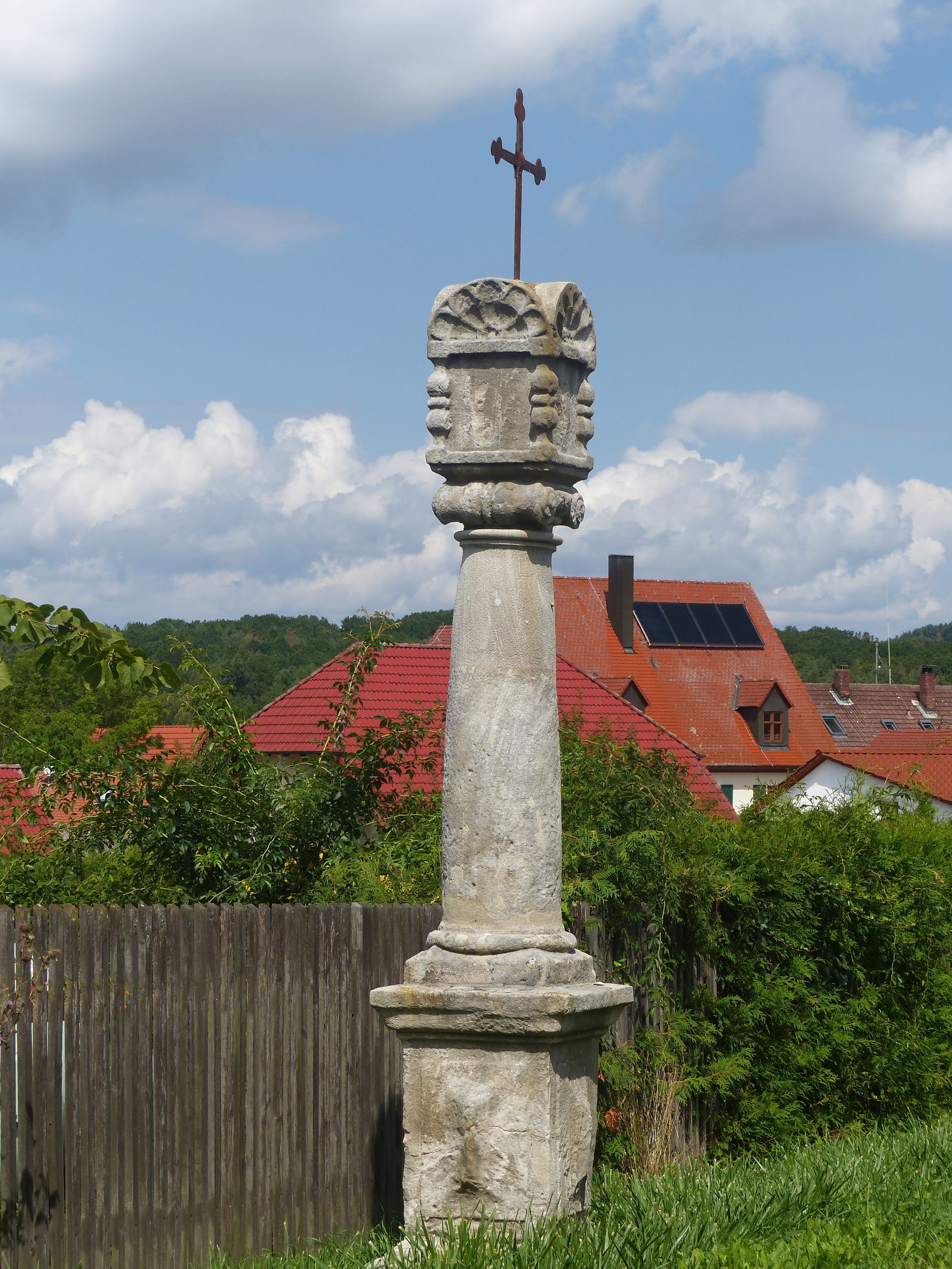 A wayside shrine in the village Bammersdorf, a district of the municipality of Eggolsheim.